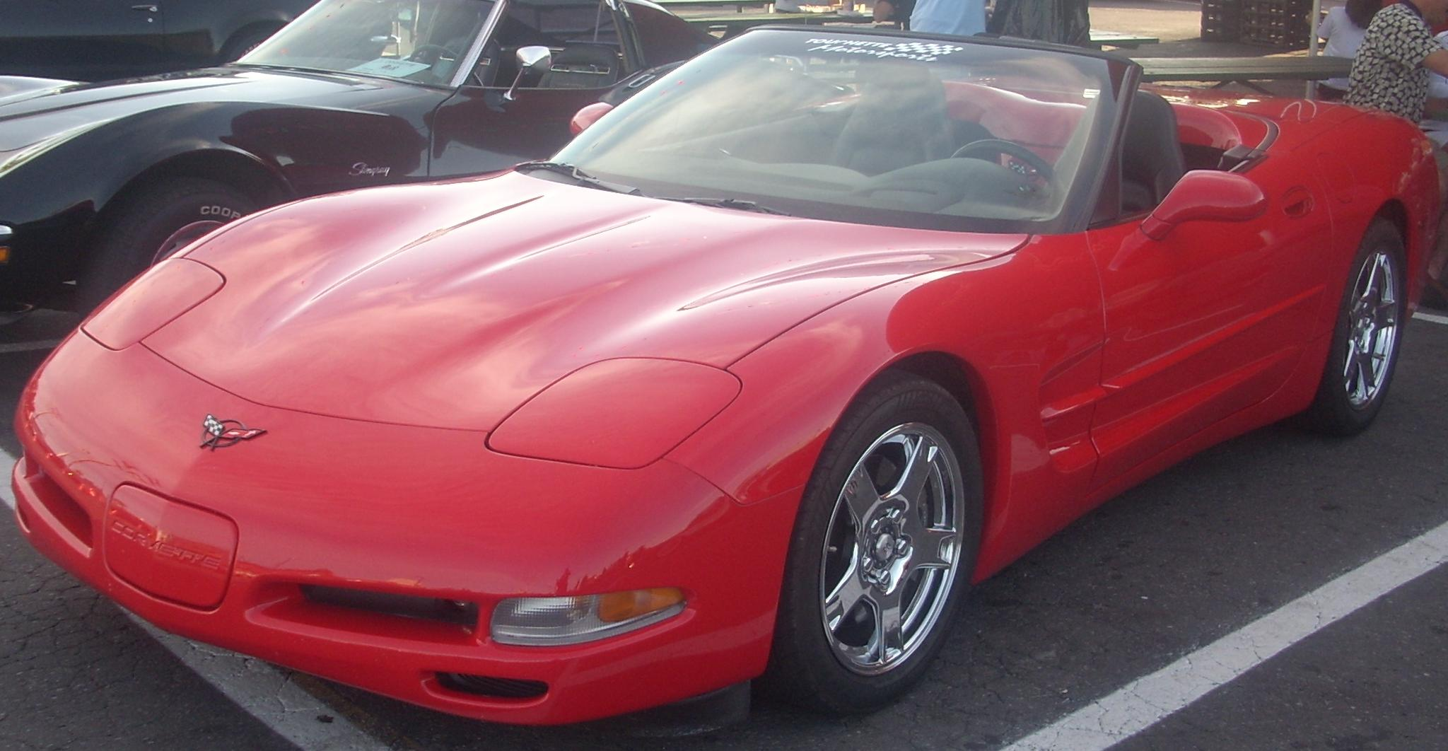 Chevrolet Corvette photographed in Montreal, Quebec, Canada at Gibeau Orange Julep.